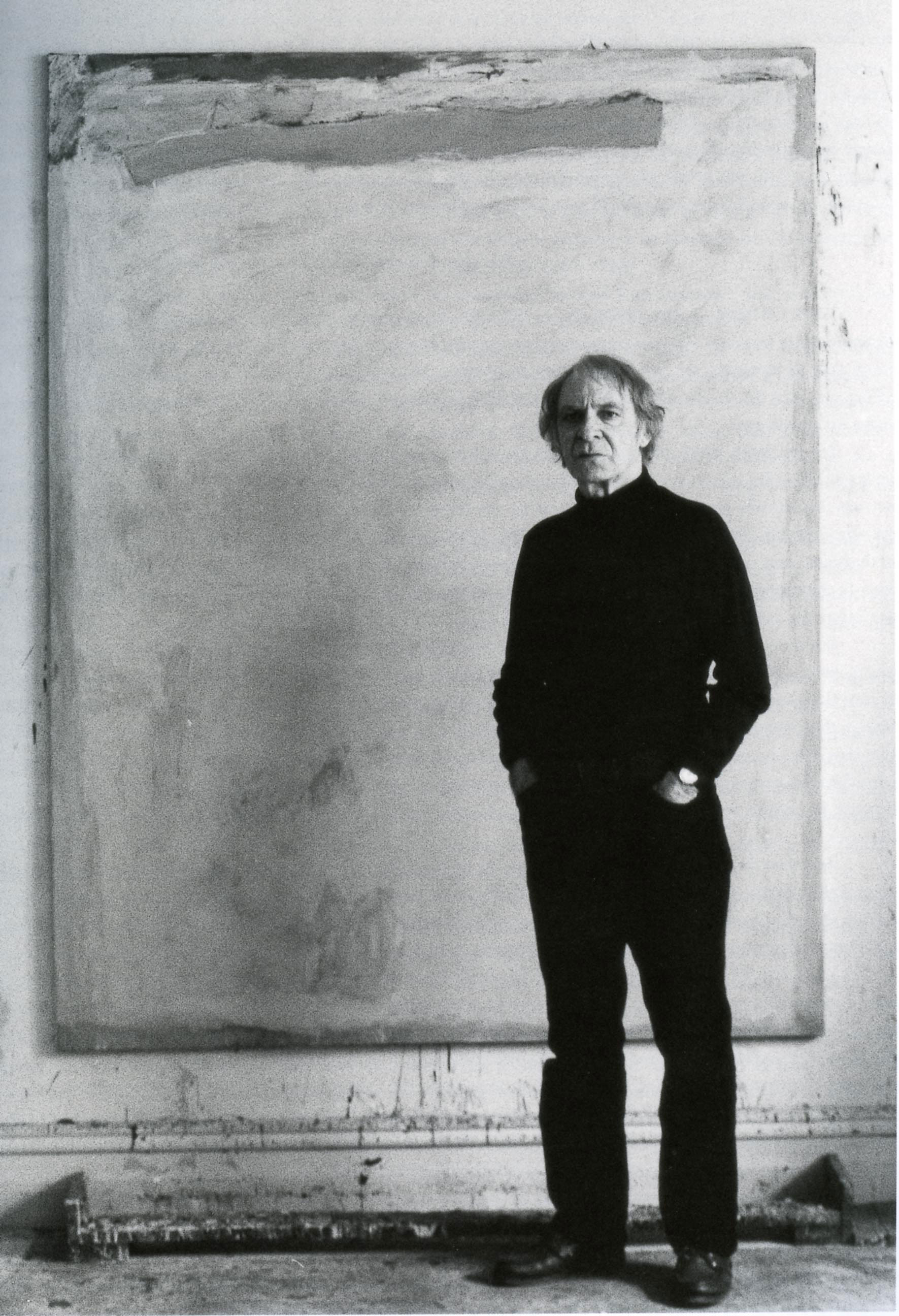 Photo of Edward Dugmore